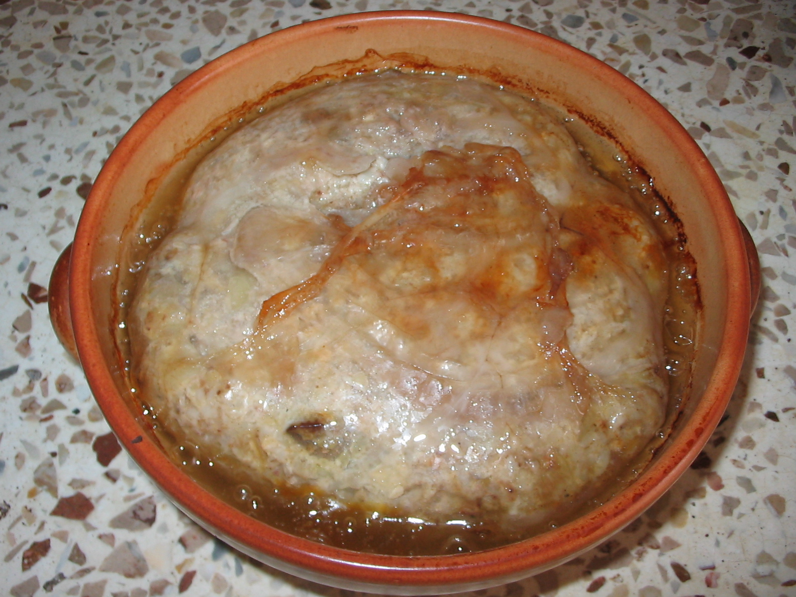 Buckwheat groats baked in caul fat with veal liver